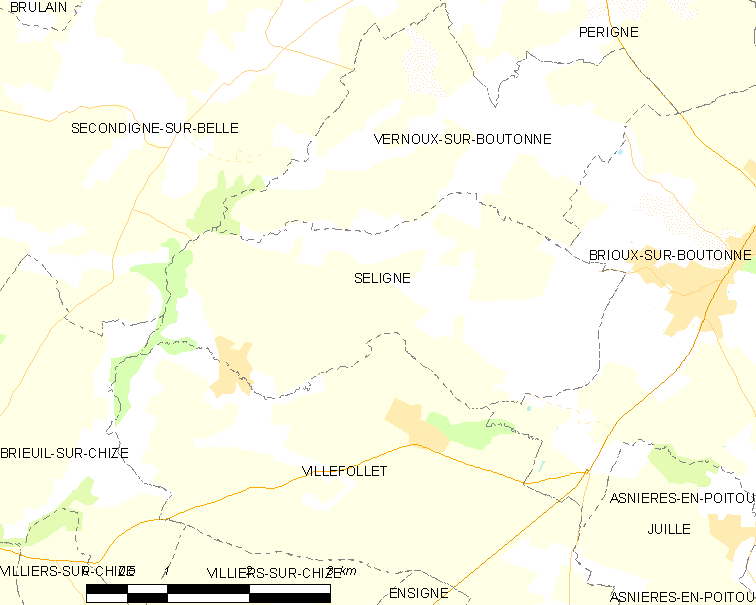 Map of French municipality Séligné